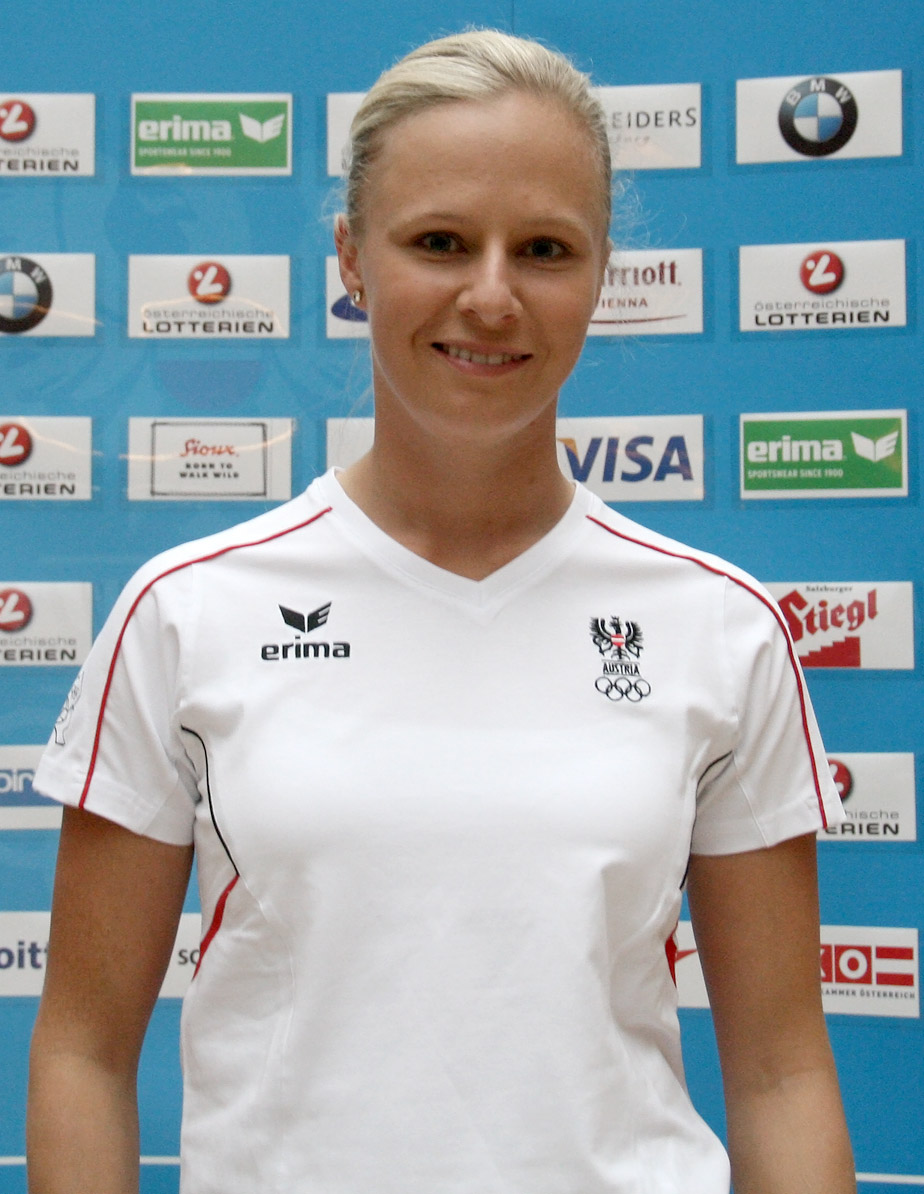 Dressage rider Victoria Max-Theurer at the hand-out of the Austrian teams official attire for the 2012 Summer Olympics in London (Marriott, Vienna).